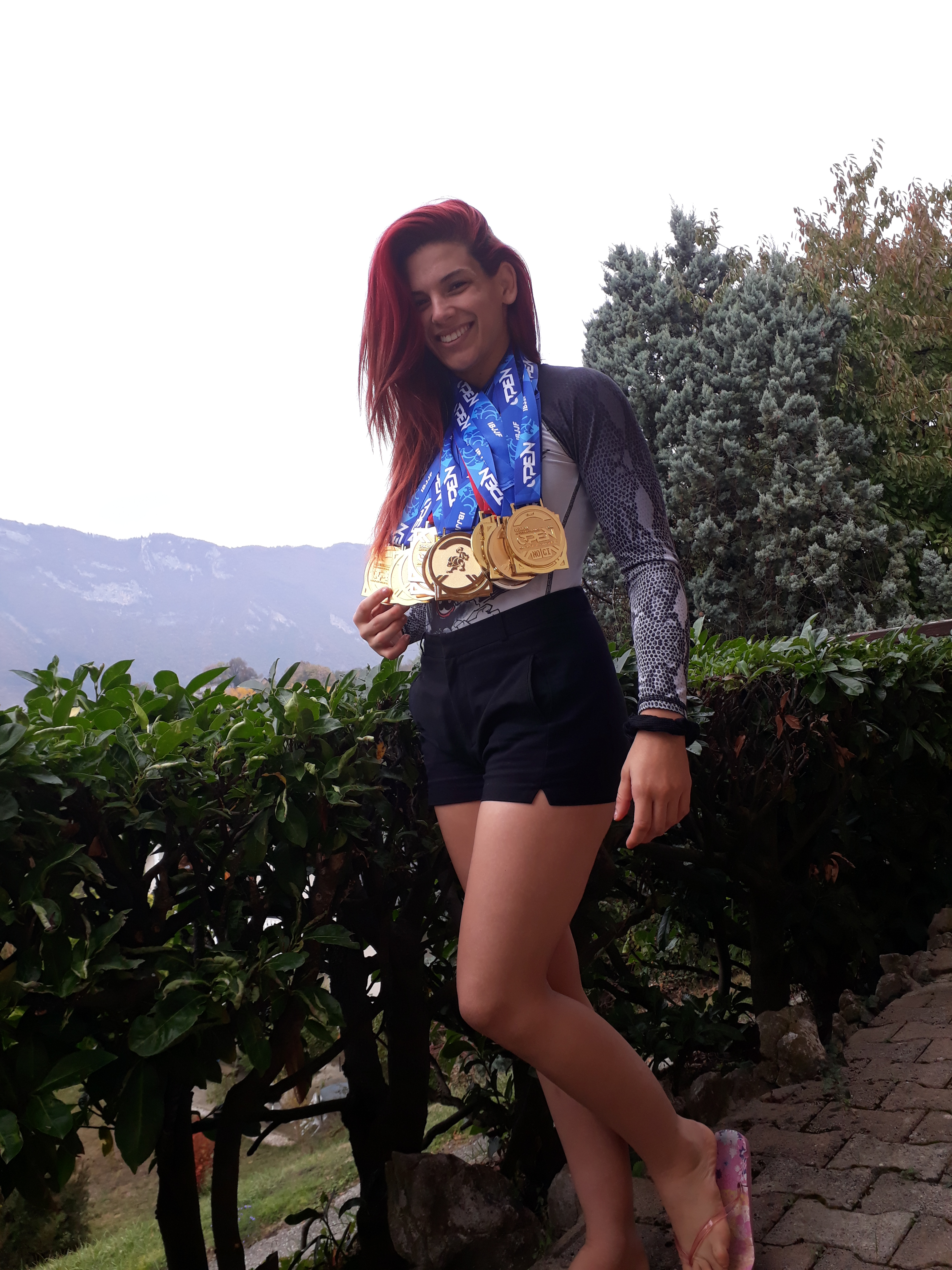 Claudia do Val wins 20 gold medals in 2 months